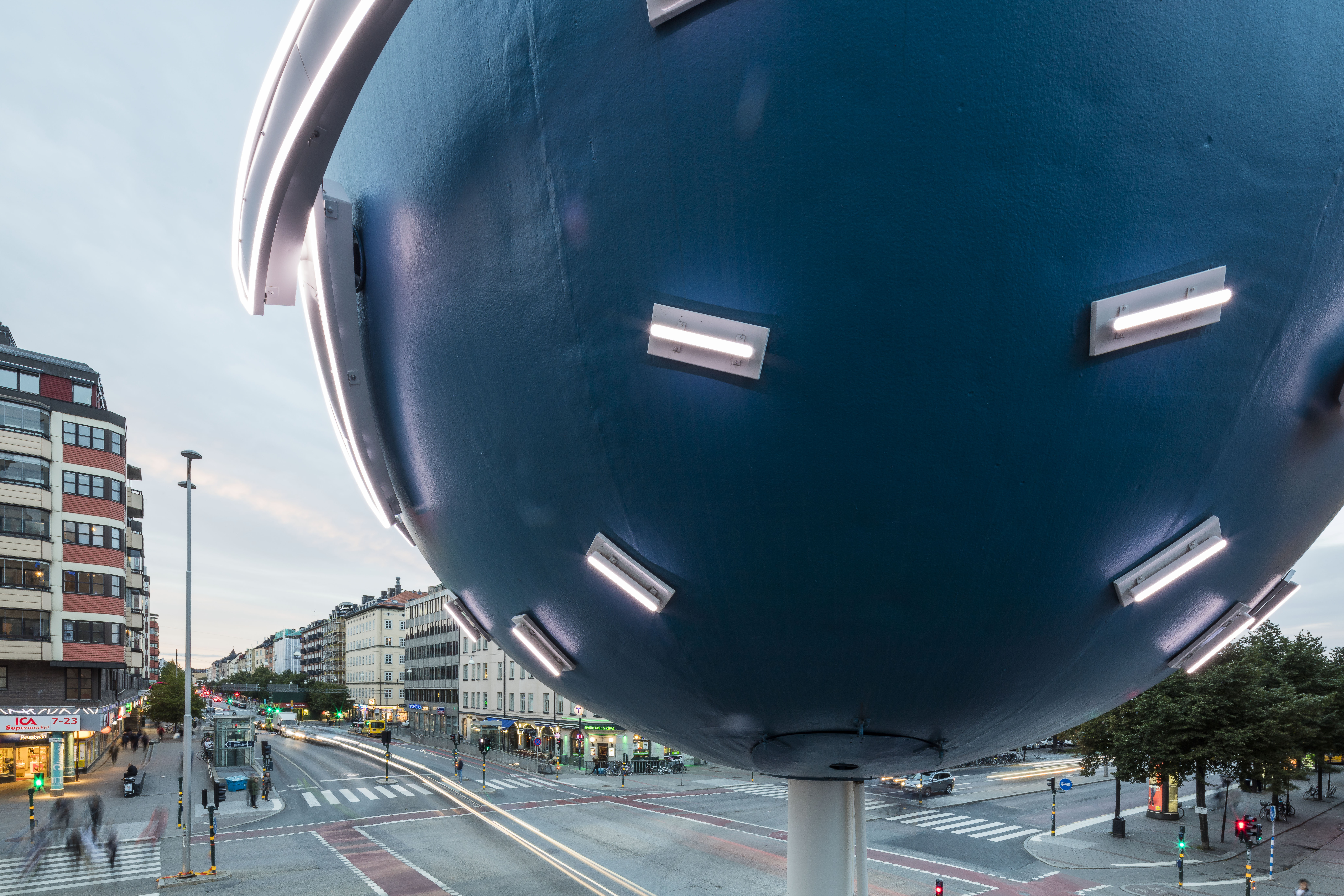 FOTOGRAFITidskulan på Åhlens Skanstull. Fotograferad från taket på kvällen vid halvåttatiden den 12 september 2017. -FOTOGRAF: Ek, Mattias.BILDNUMMER:Stadsmuseet i Stockholm